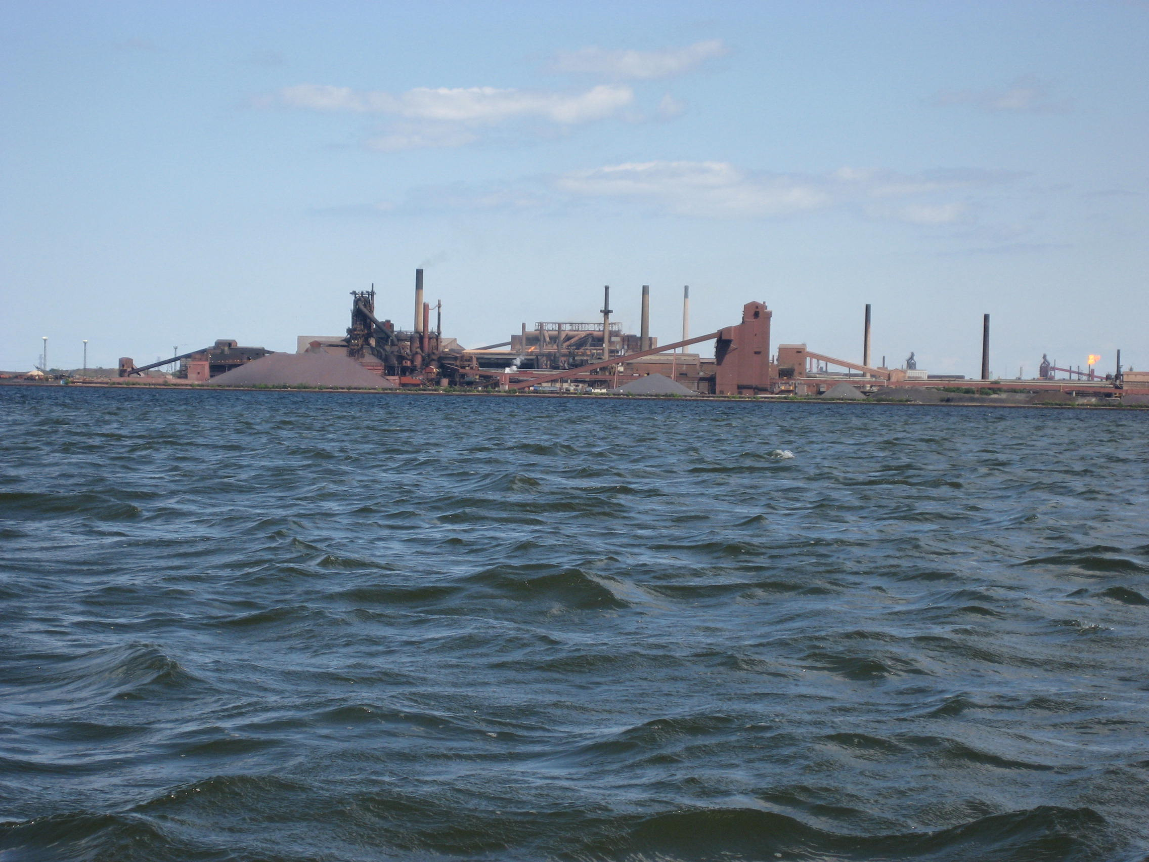 Stelco in background, view from harbour at Hamilton, Ontario